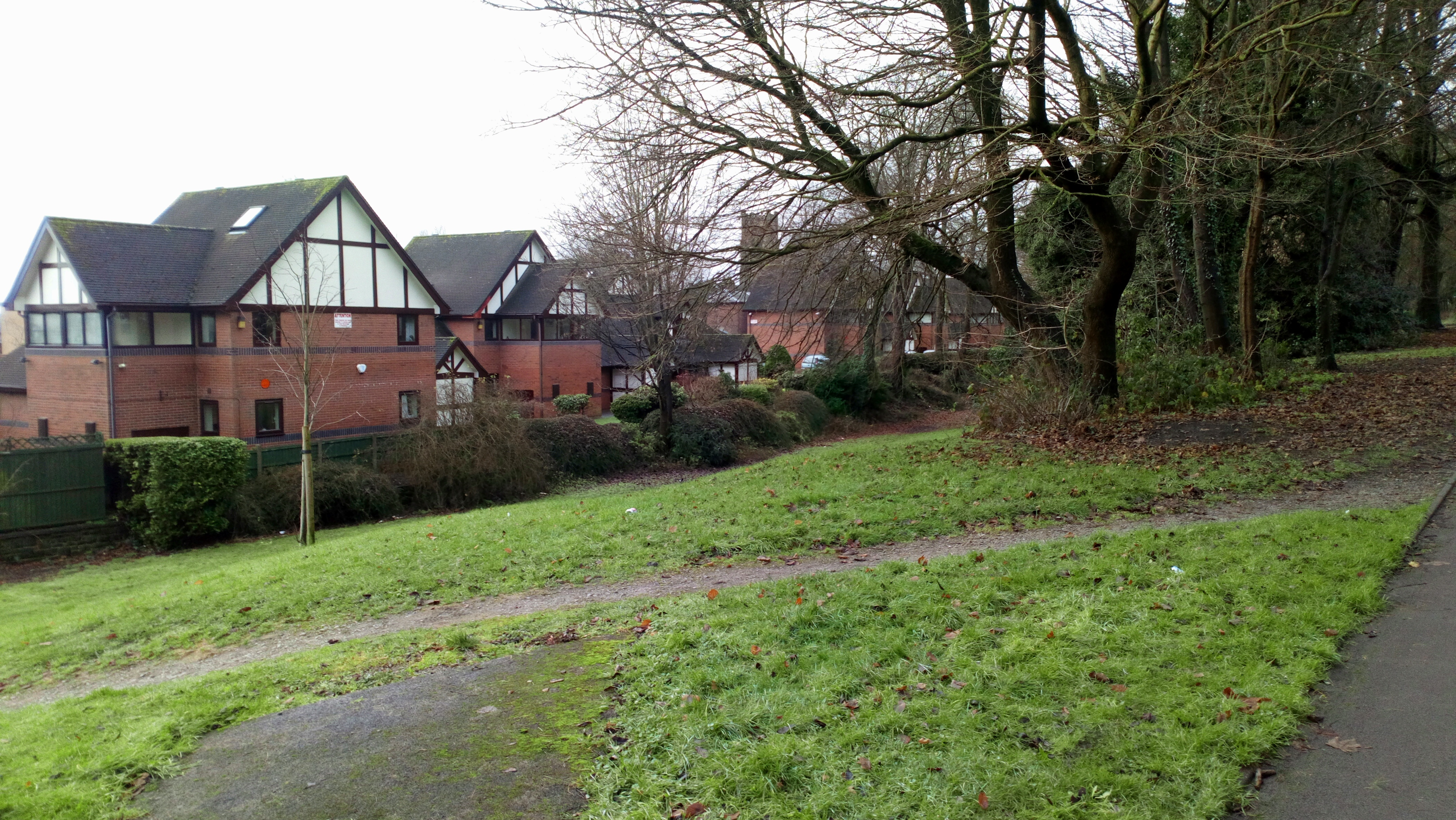 To add to page.